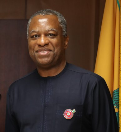 Deputy Secretary of State John Sullivan meets with Nigerian Foreign Minister Geoffrey Onyeama in Nigeria.